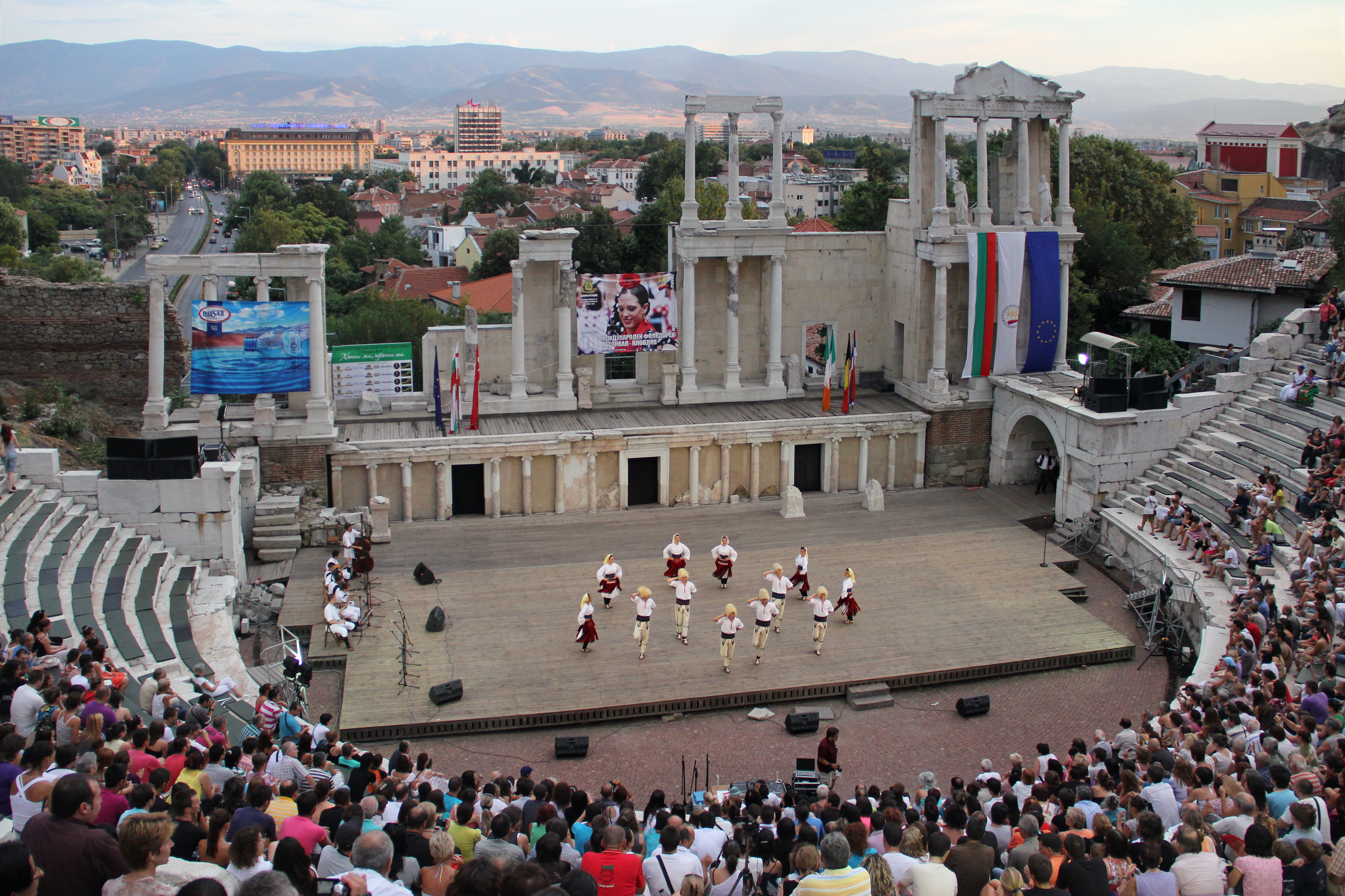 The International Folklore Festival in the Ancient Roman Theatre, Plovdiv.